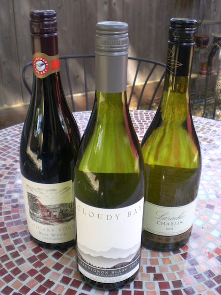 Wine bottles using screwcaps